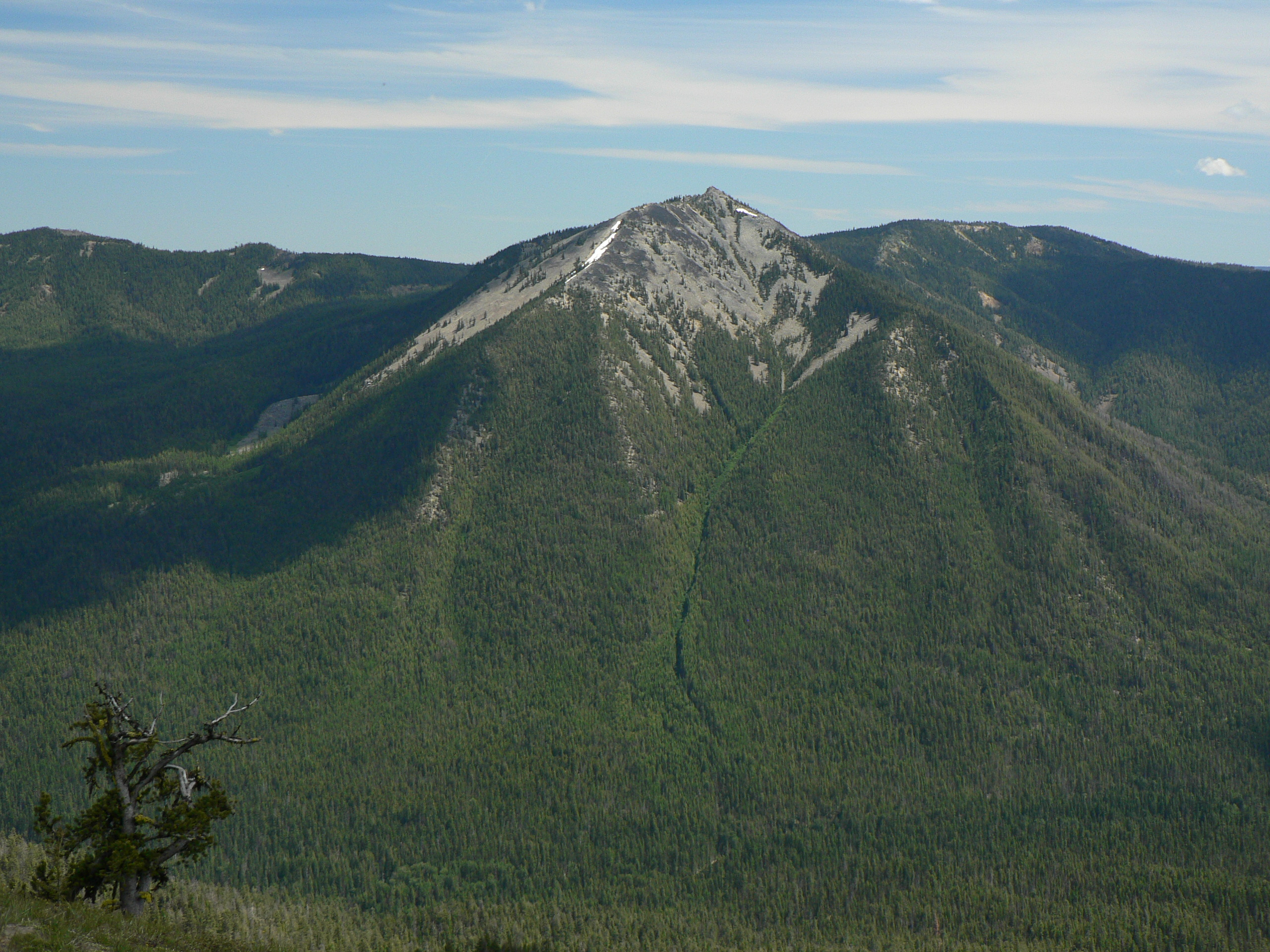 Old Scab Mountain (2014 m, 6608 ft)